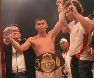 Photo by Jeffrey Pamungkas (copyright protected).